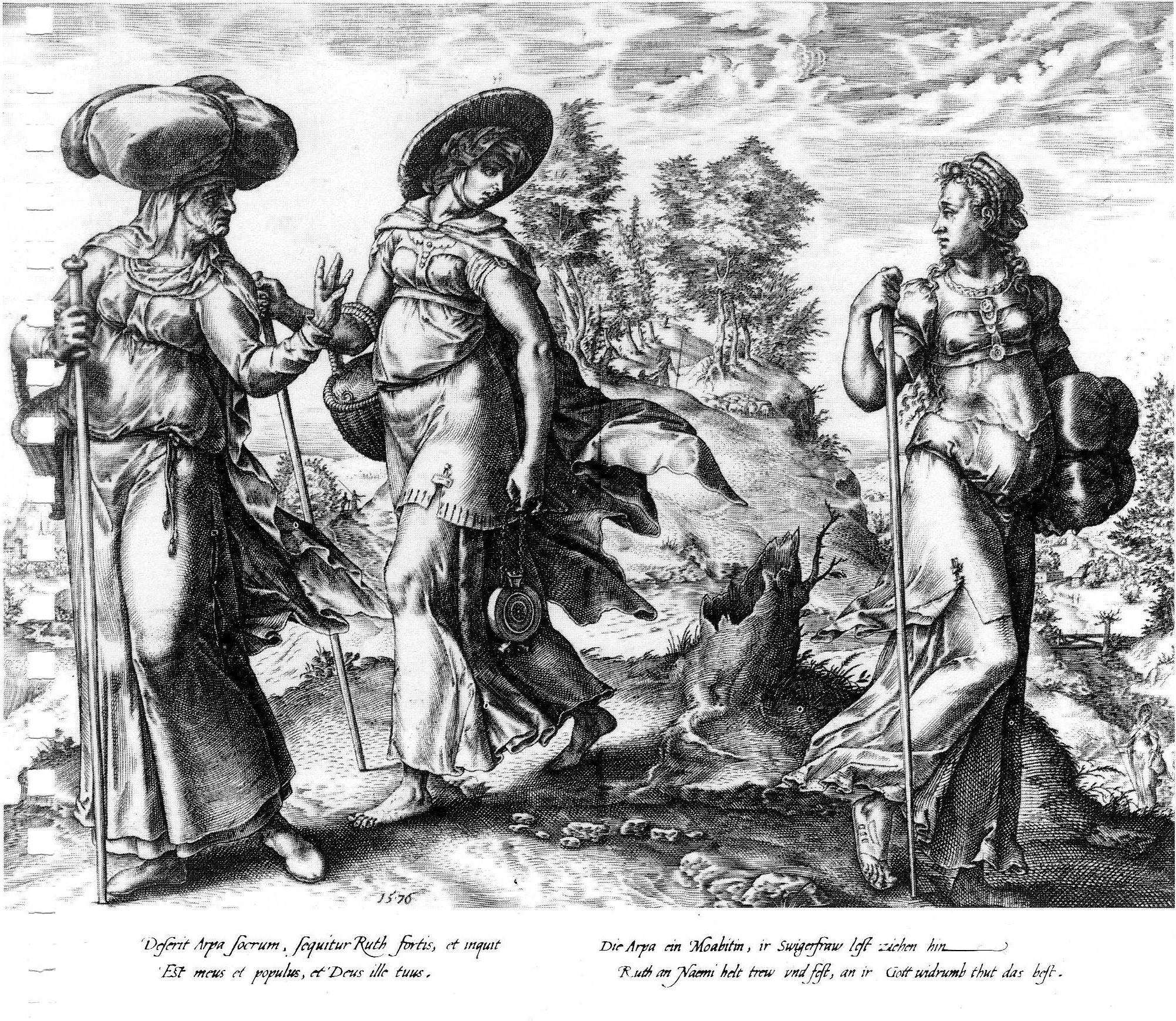 Hendrick Goltzius. Orpah leaving Ruth and Naomi. 1576. Engraving. 19.8 × 27.3 cm. Rotterdam, Museum Boijmans van Beuningen (inv.nr. BdH 8063).